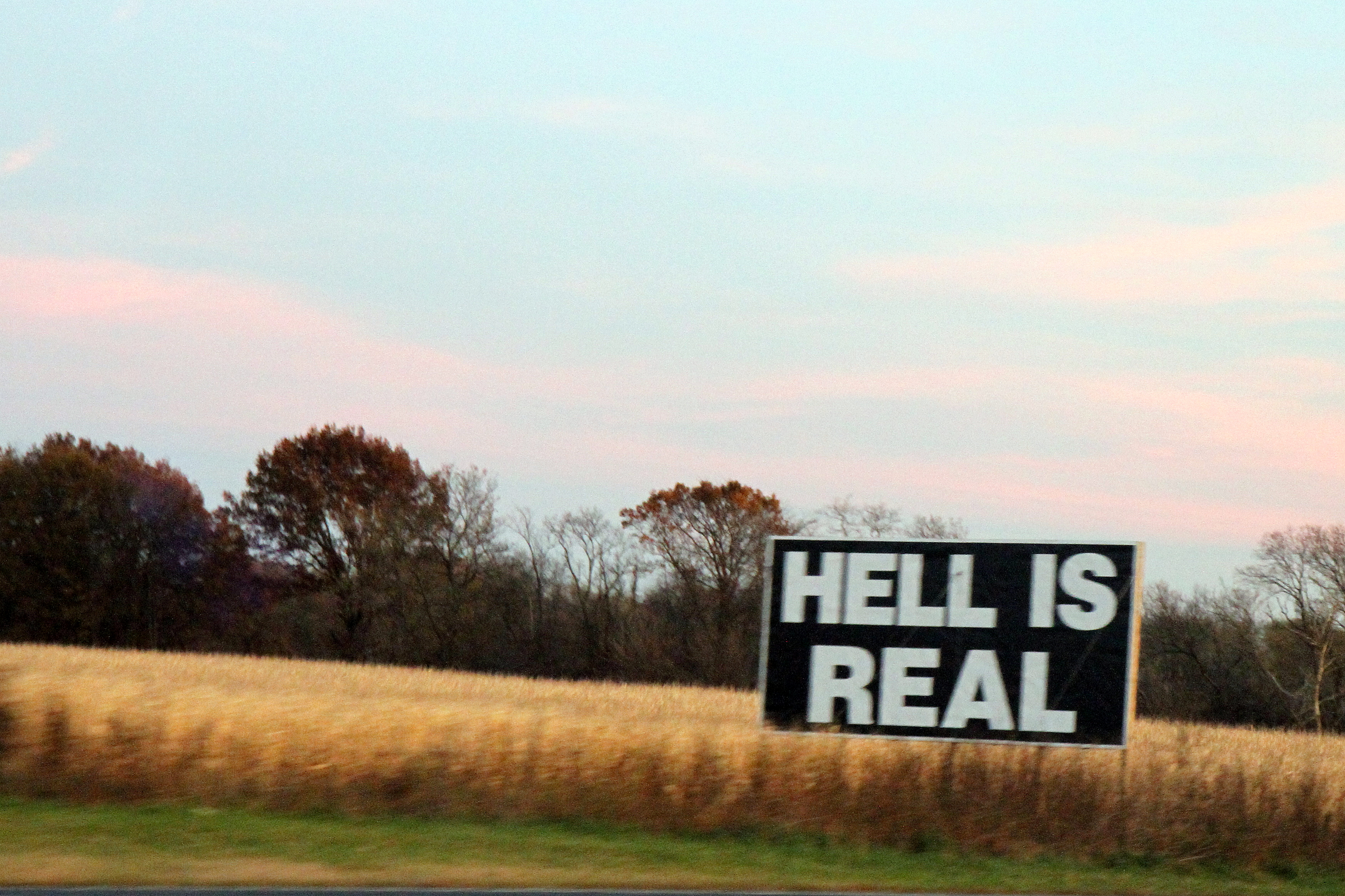 Hell is real sign in IN on 65